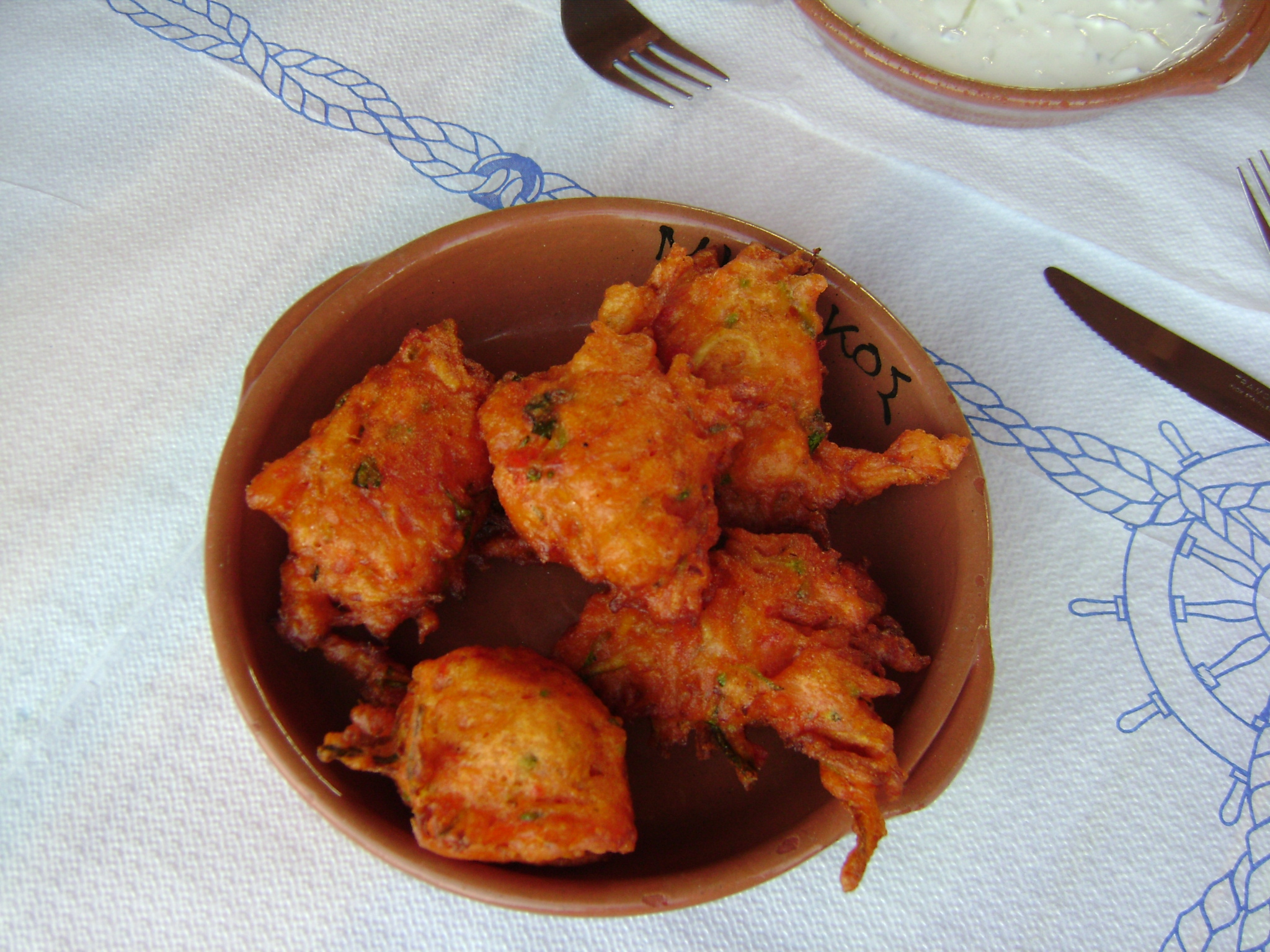 Pitaroudia, traditional Dodecanesse food